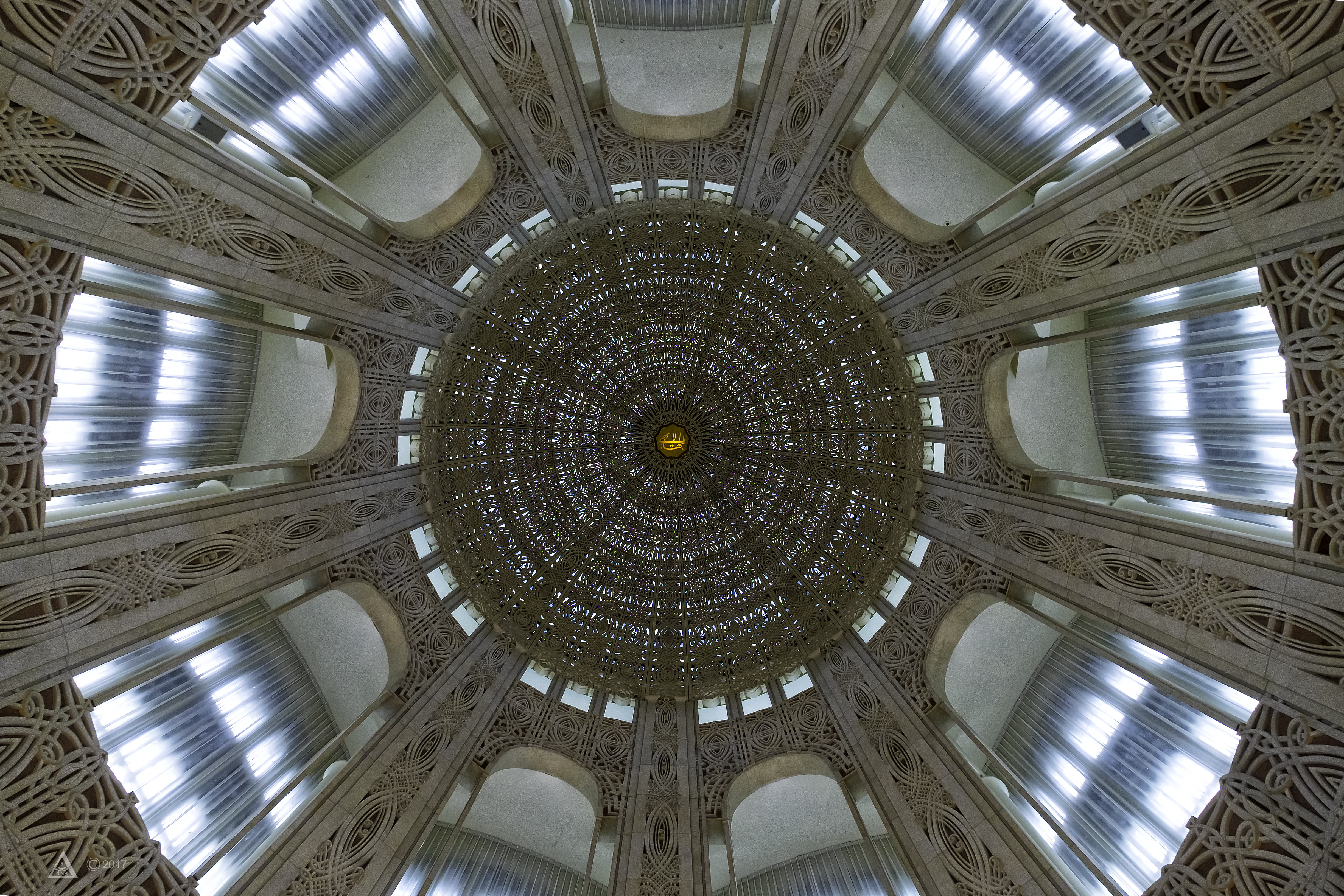 Bahá'í House of Worship in Wilmette, Illinois